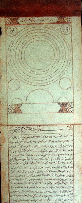 Codex of the Tanners' Guild of Ohrid